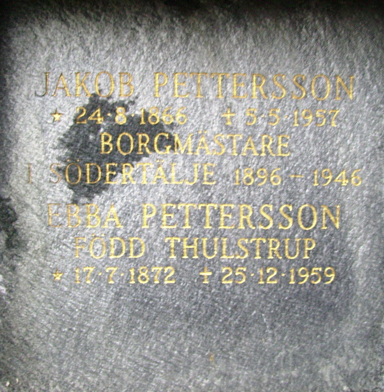 Picture of Jakob Pettersson's grave at Södertälje kyrkogård